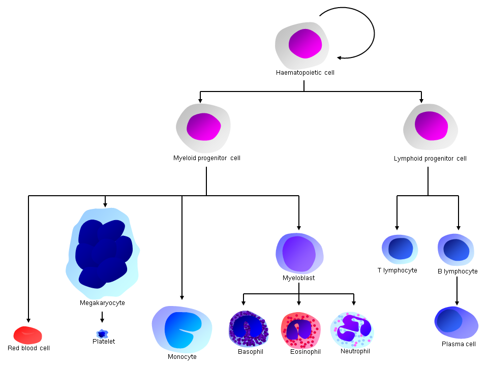 Diagram of haematopoiesis